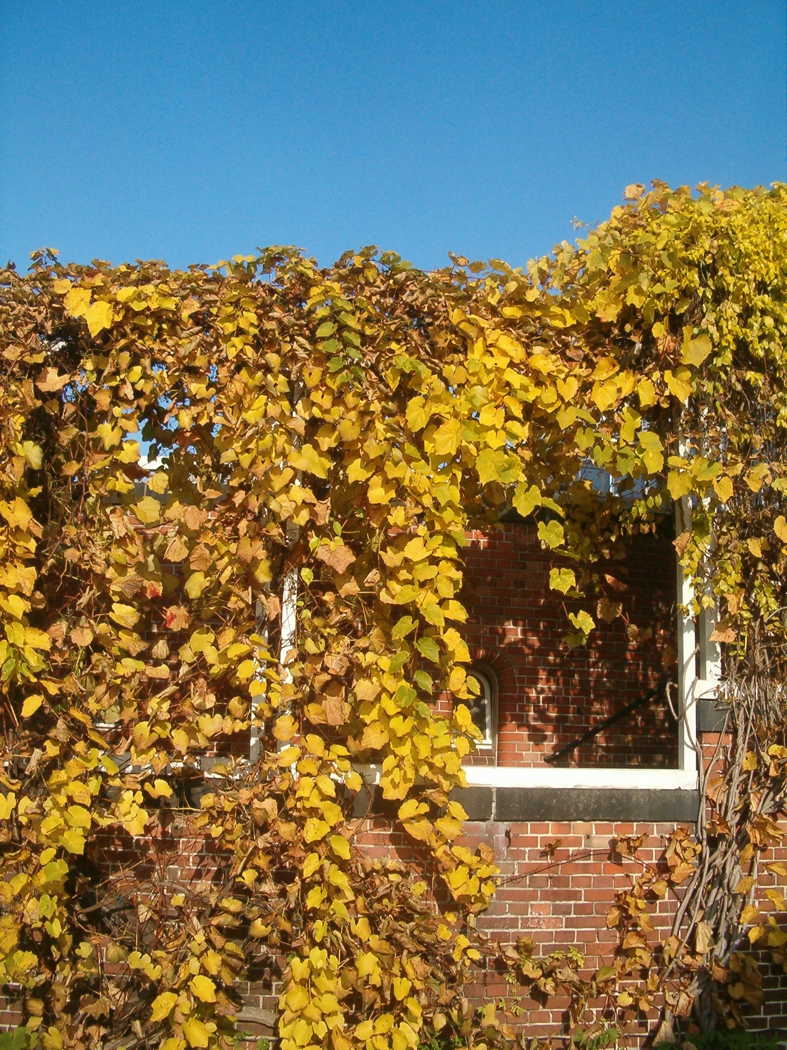 Species Vitis amurensis in autumn in the Botanical Gardens Berlin Dahlem